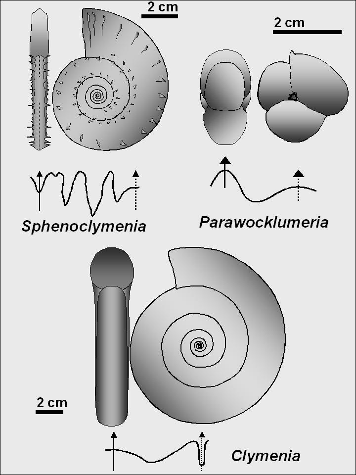 Some example of Clymeniida genera: Clymenia (primitive); Sphenoclymenia and Parawocklumeria (advanced). From Dzik J. (2006), redrawn and simplified.